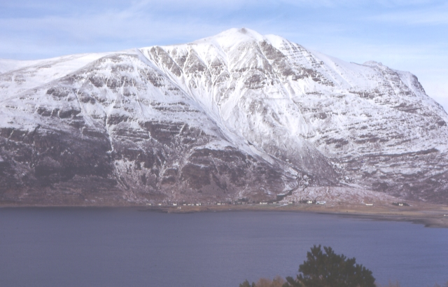 Liathach. Liathach dwarfs the village of Fasag when seen from the other side of Upper Loch Torridon.